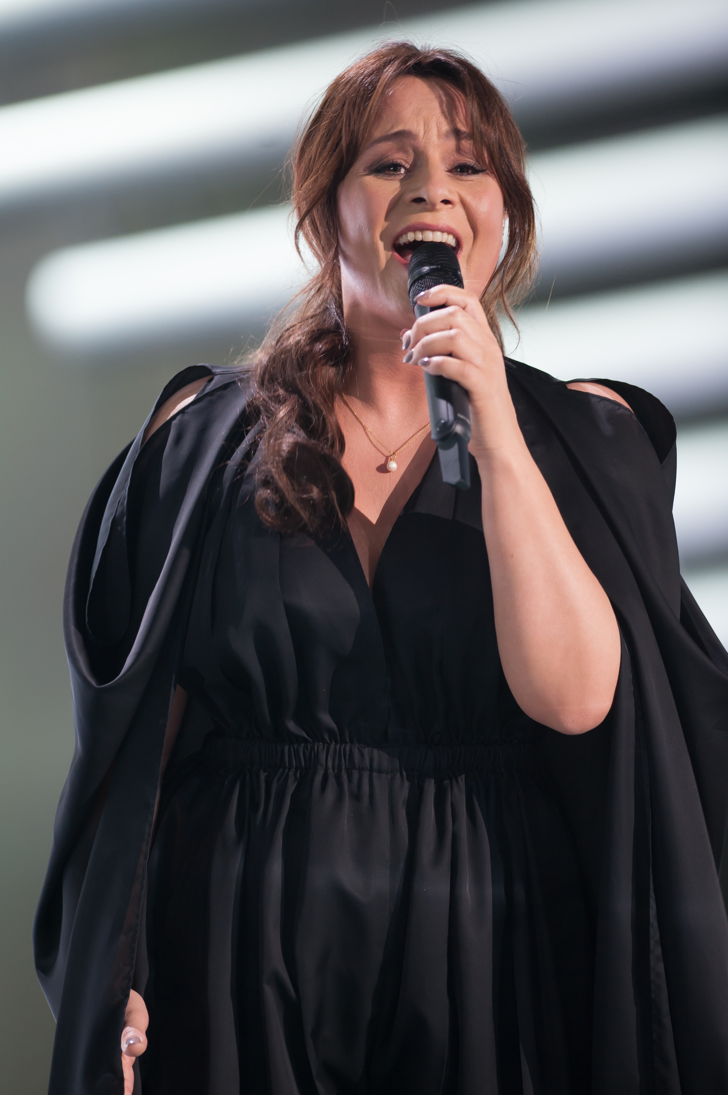 Eurovision Song Contest Vienna 2015: Trijntje Oosterhuis